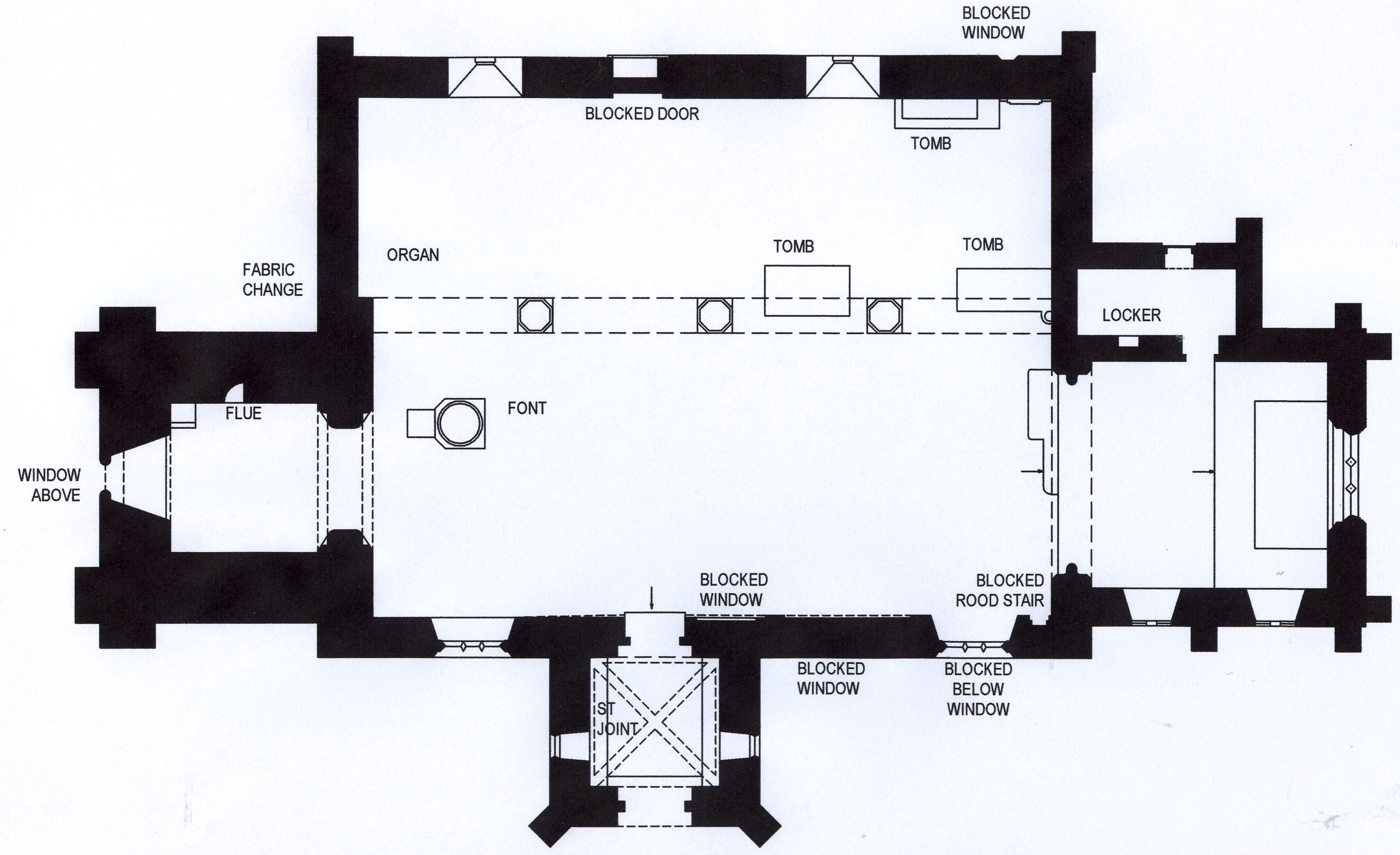 Ground plan of the parish church of St Mary the Virgin, Dodford, Northamptonshire. Created by M Hobbs using AutoCAD software and then scanned